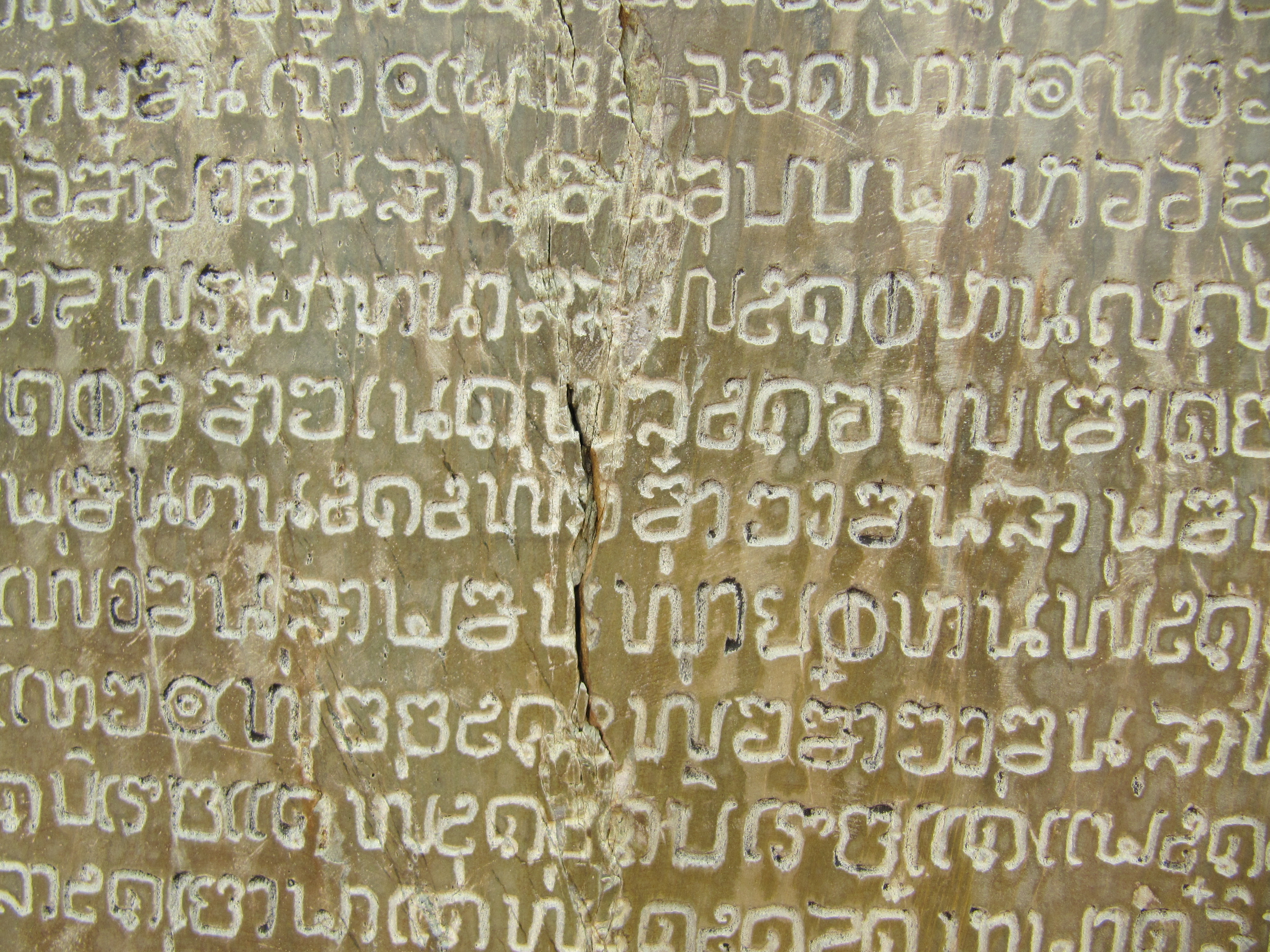 Close-up of the Ramkhamhaeng inscription, using old style Thai script